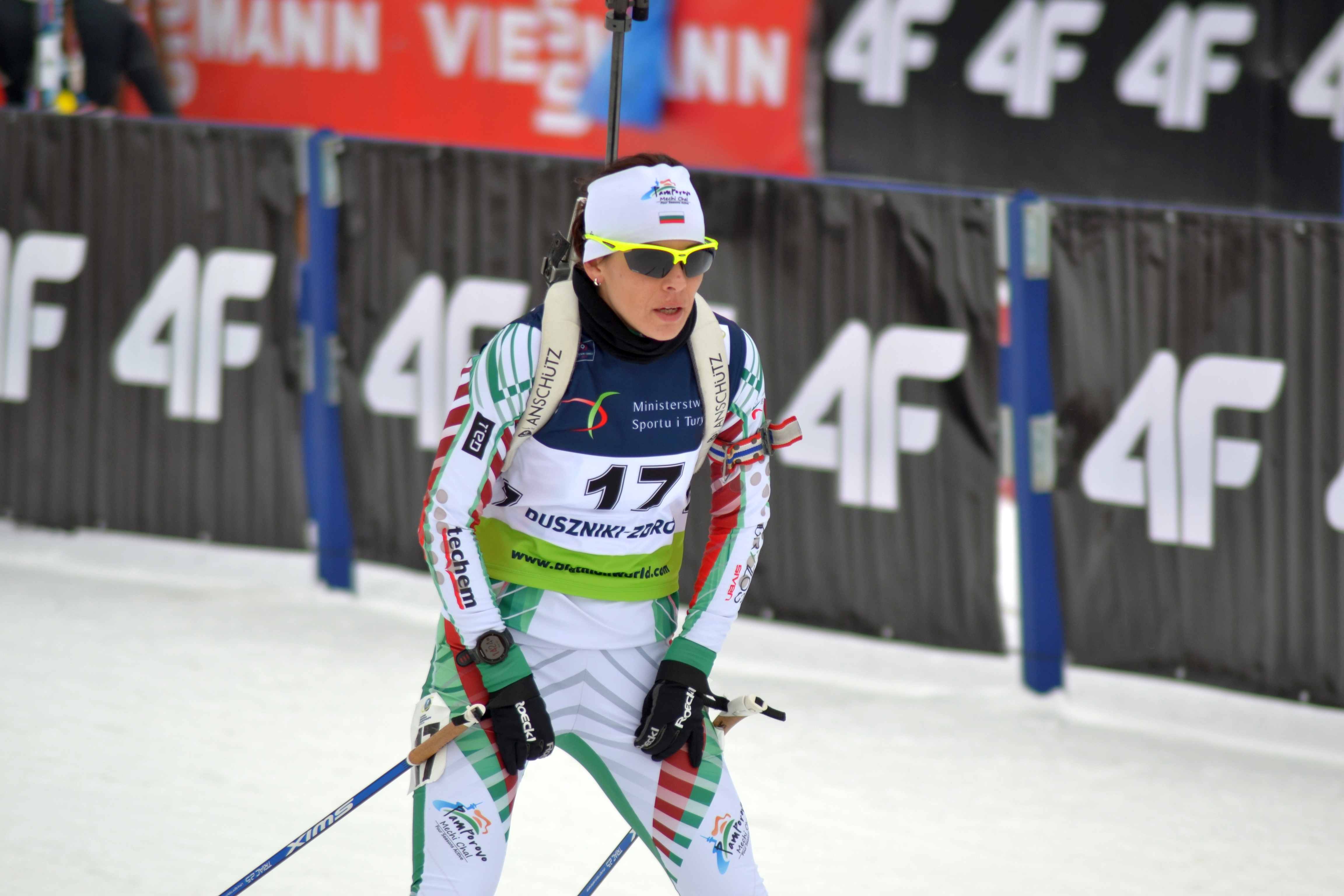 Open European Championships Biathlon 2017, Individual Women's race, held on January 25th.